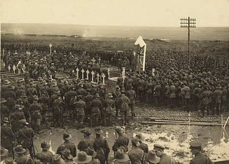 Official Photo no.EZ125, AWM exhibition no.6 Original caption reads: "An Australian Chaplian delivering the sermon at the unveiling of memorial to the 1st Australian Division, on July 8, 1917, Pozieres, in France". Tasmanian Archives and Heritage Office: W.L. Crowther Library